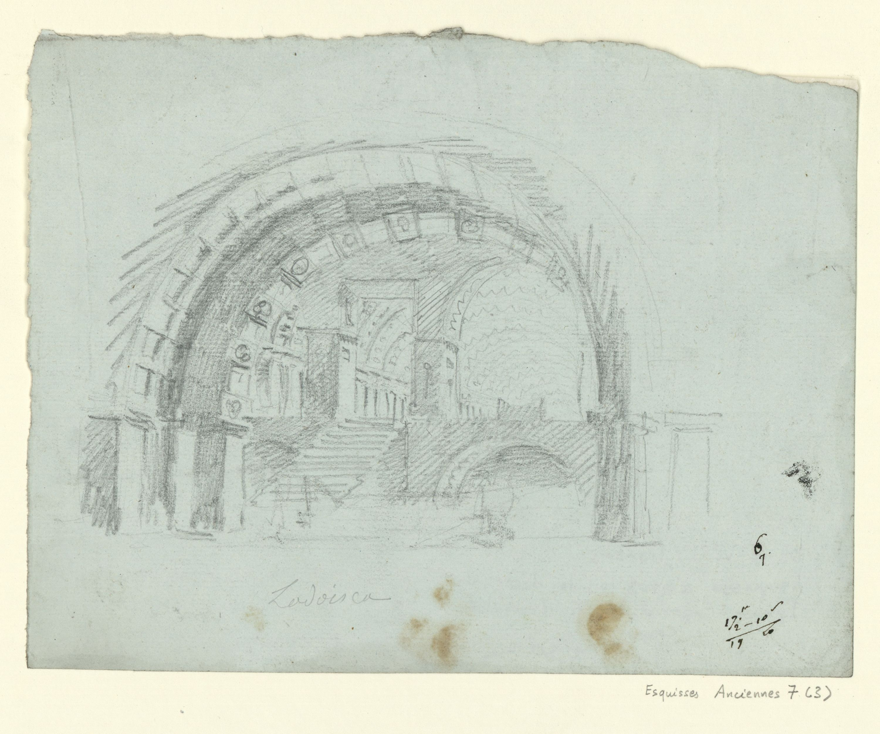 Sketch for the decor of the second act, opera "Lodoïska" by Cherubini, first performed at the Théâtre Feydeau in Paris on 18 July 1791. Sketch by François Verly, after Ignazio Degotti